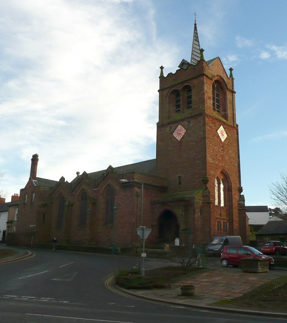 Photograph of St Martin's Church, Brampton, Cumbria, England, from the northwest